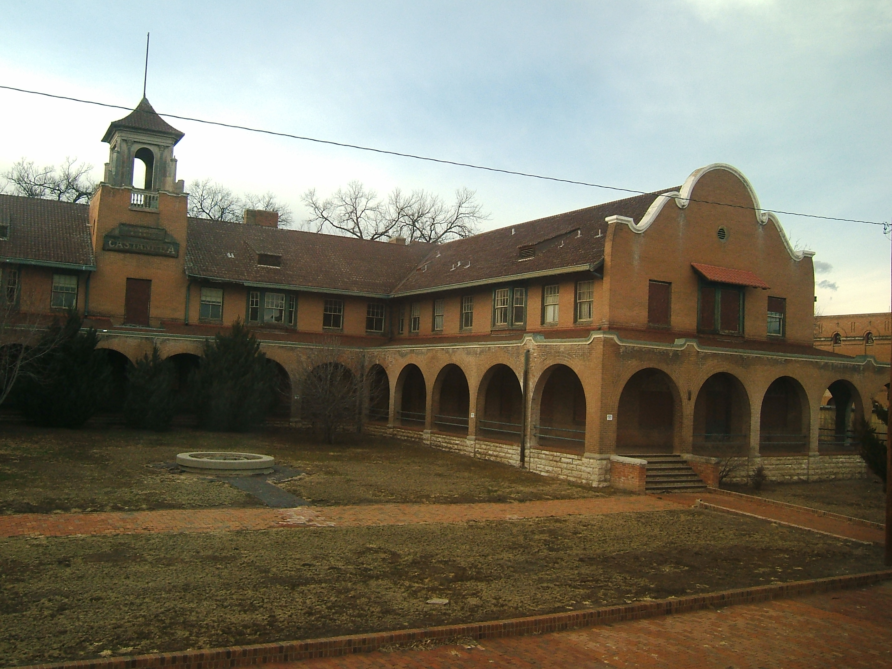 The Castenada (built 1899) — former Harvey House in Las Vegas, New Mexico.